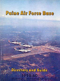 Guide to Paine AFB, Washington, 1959